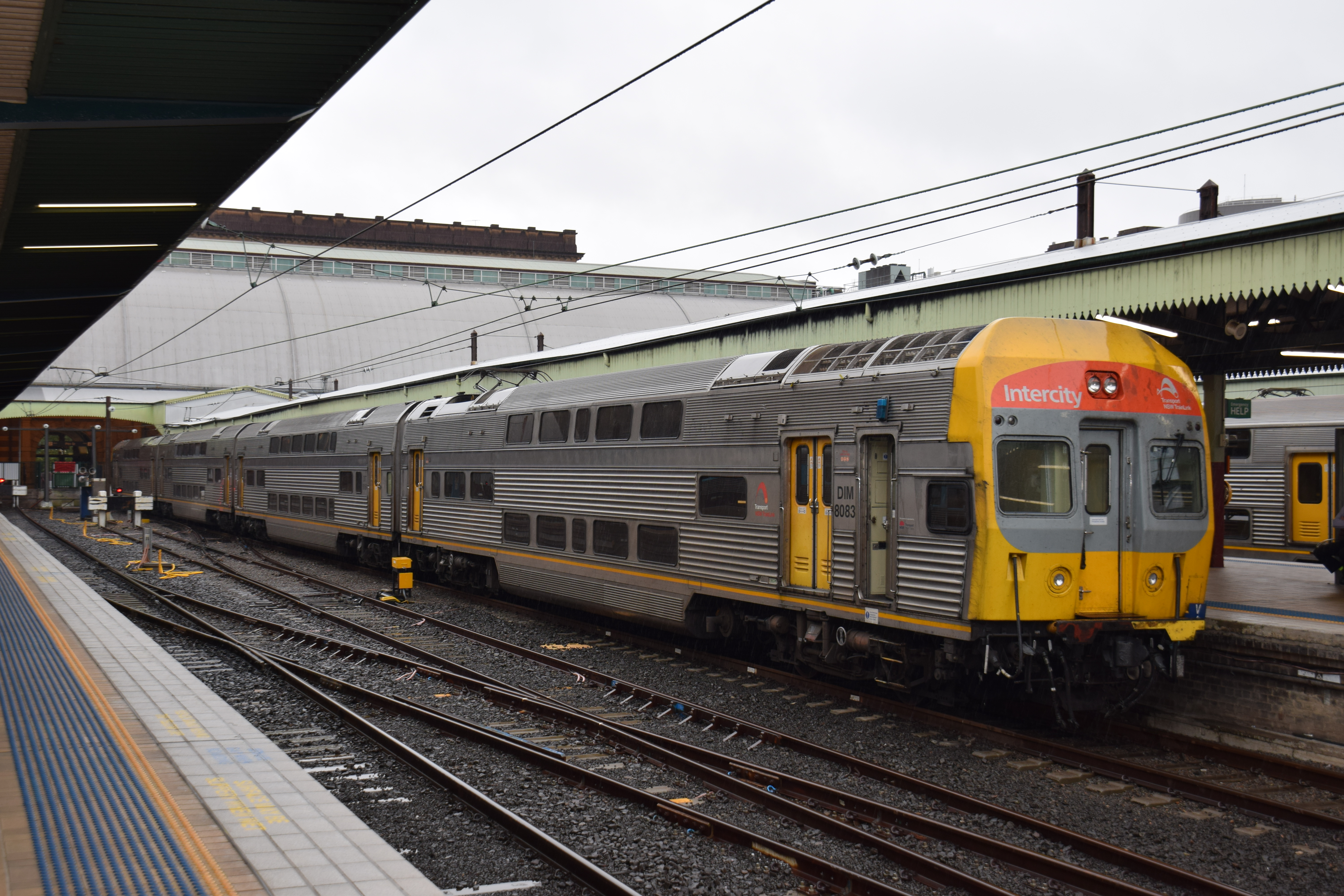 NSW Train Link 'V set' (Srs 4) 1,500 V dc overhead Interurban 4-car emu led by Driving Power Car No.DIM 8083 at Sydney Central station on a Main Western Line service to Lithgow, 29 March 2016. Comeng (Sydney) built 61 sets in 1970-89 in 8 series.